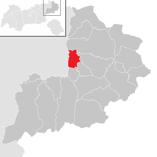 District Kitzbühel